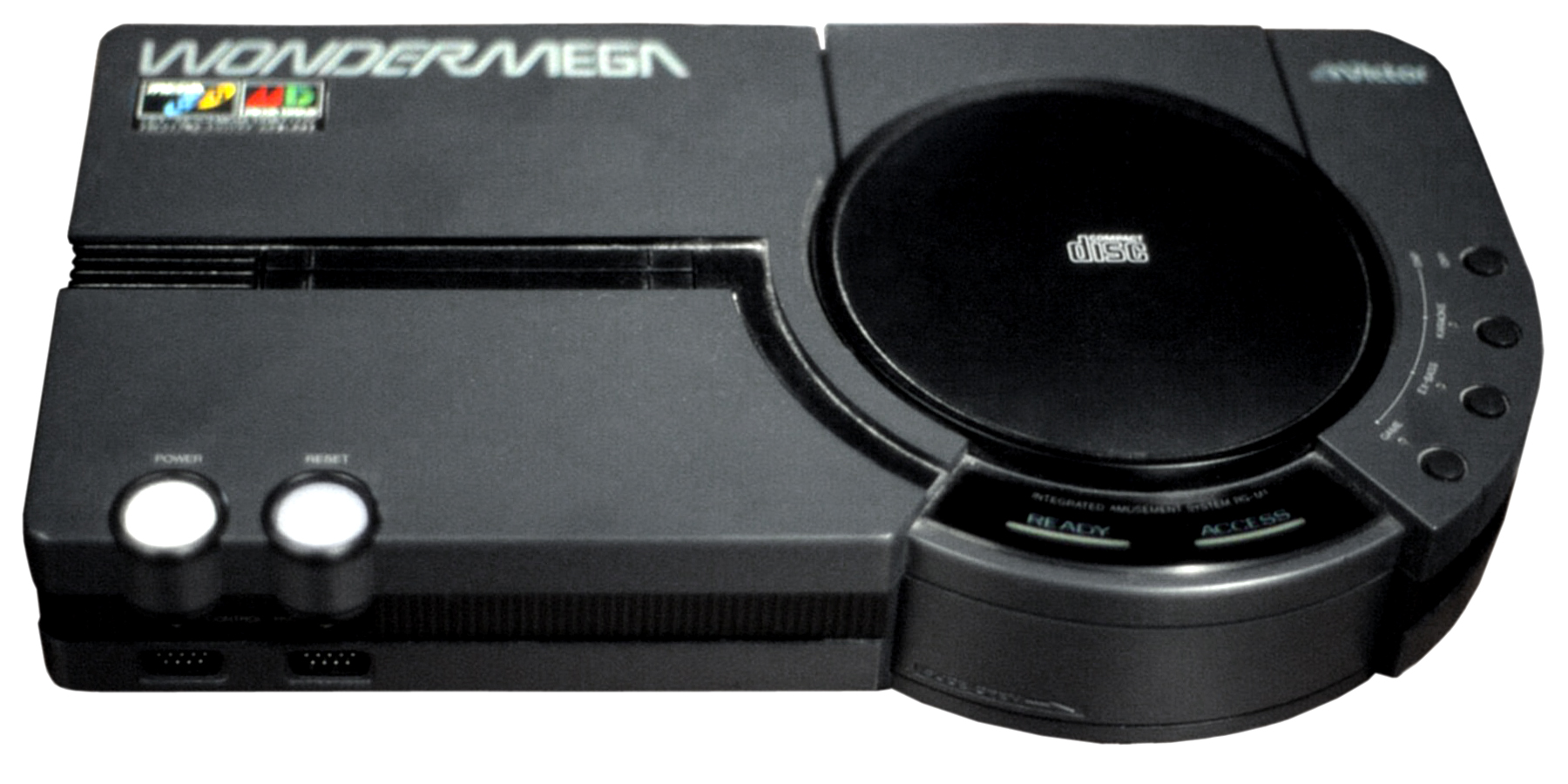 An image of the JVC Wondermega, a variation of the Sega Genesis.